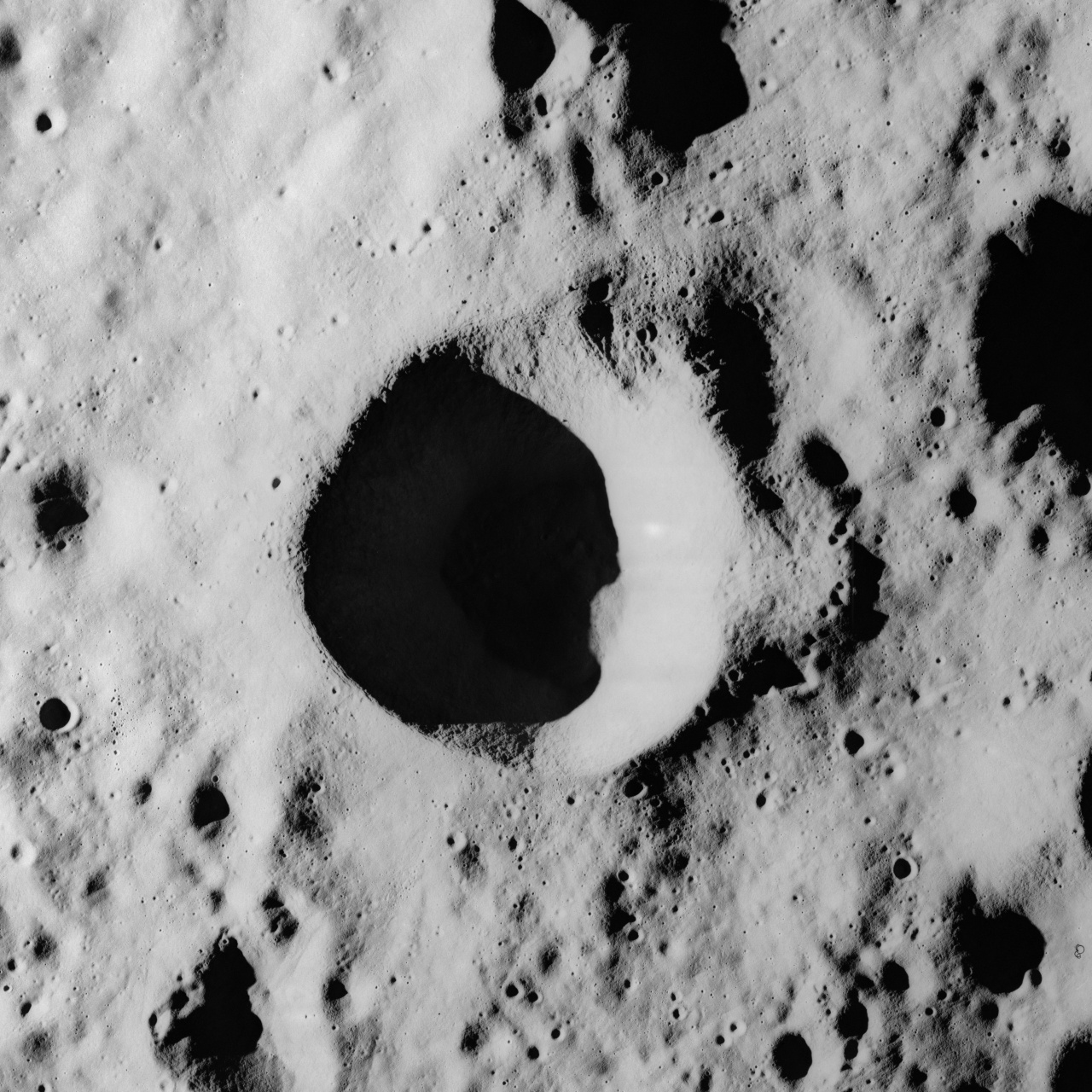 Recht (crater), on the far side of the moon. Altitude 101 km, sun elevation 11 deg.